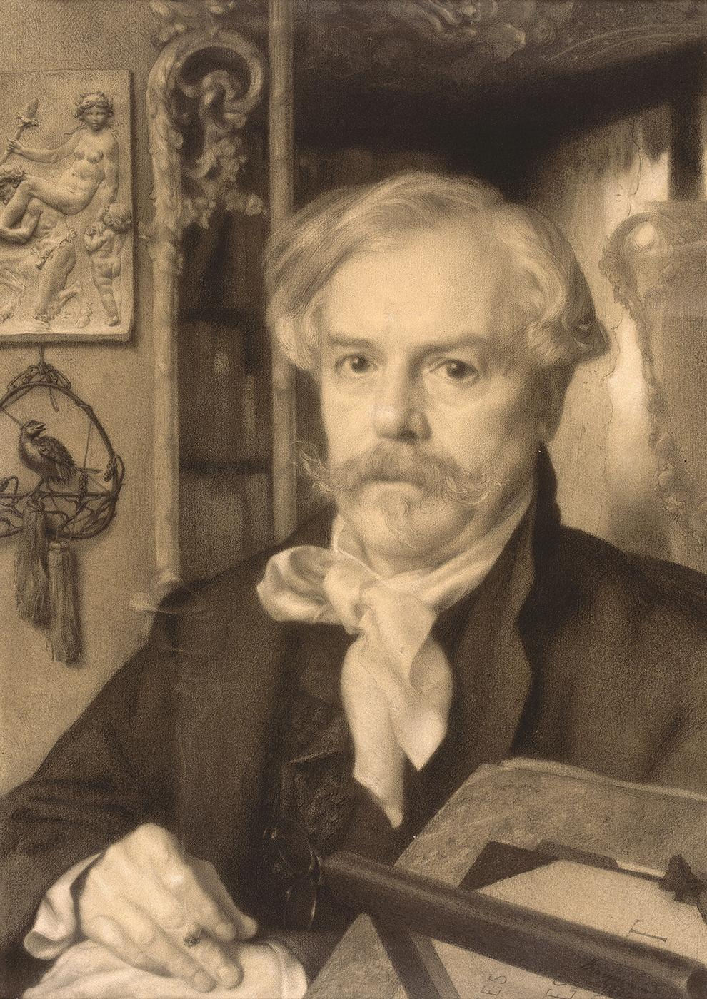 Edmond de Goncourt, stump+charcoal on canvasmedium QS:P186,Q1424515;P186,Q12321255,P518,Q861259, Height: 55 cm (21.6 in); Width: 35 cm (13.7 in) dimensions QS:P2048,55U174728;P2049,35U174728